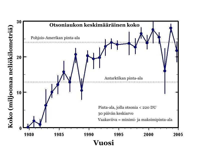 Ozone hole area with Finnish titles, see Image:Ozone hole area.jpg